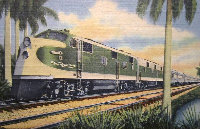 Postcard depiction of the Southern Railways train "The Royal Palm".